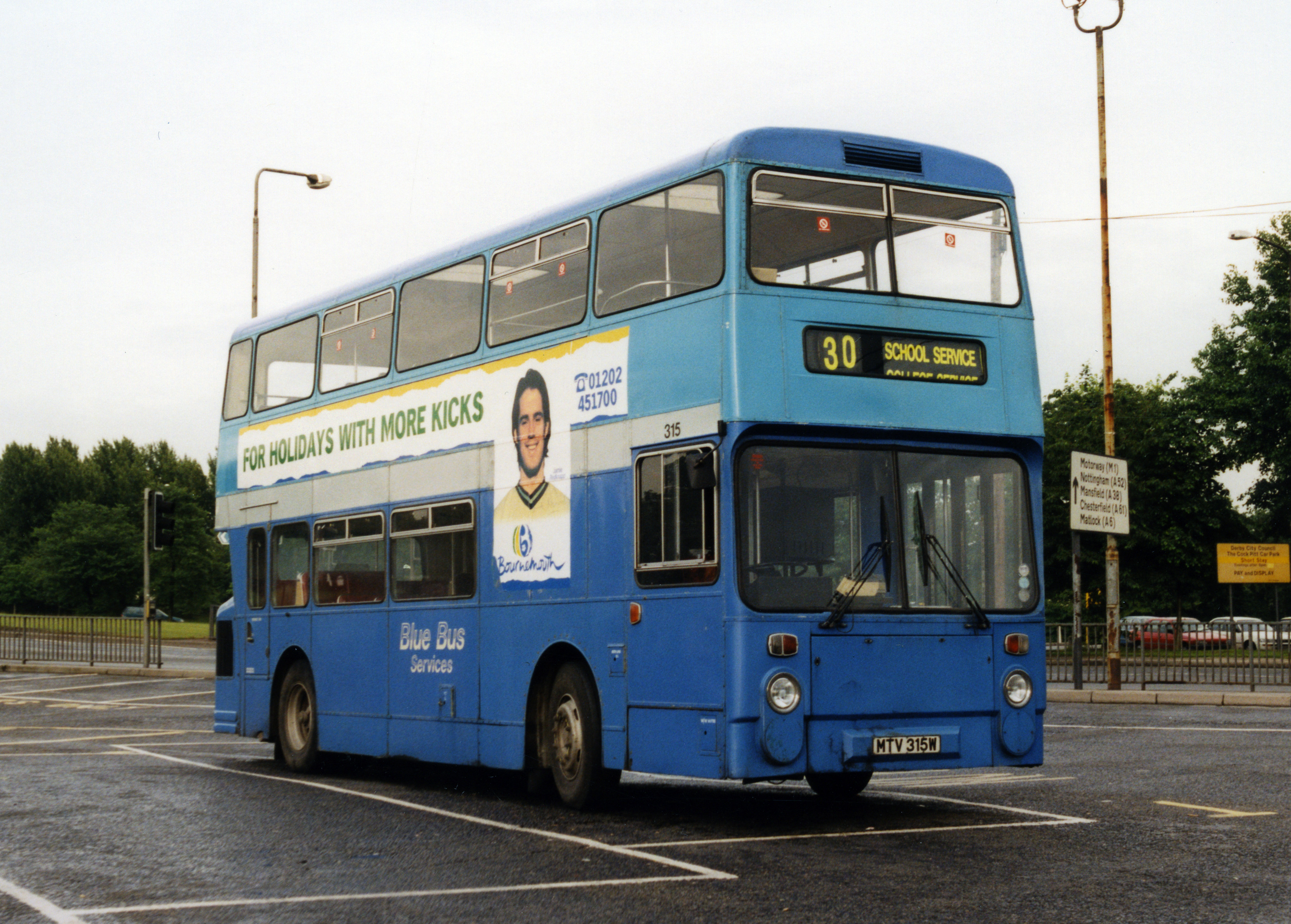 Derby City Transport Daimler (Leyland) Fleetline with Northern Counties bodywork, number 315 (MTV 315W), in "Blue Bus Services" livery in the layover area of the original Derby Bus Station.